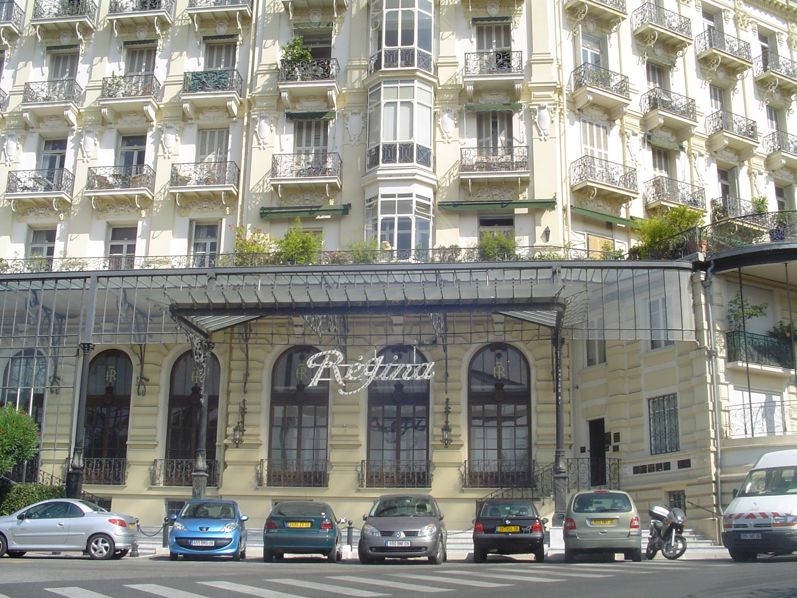 Le Regina, formerly Excelsior Régina Palace, in Nice, France.